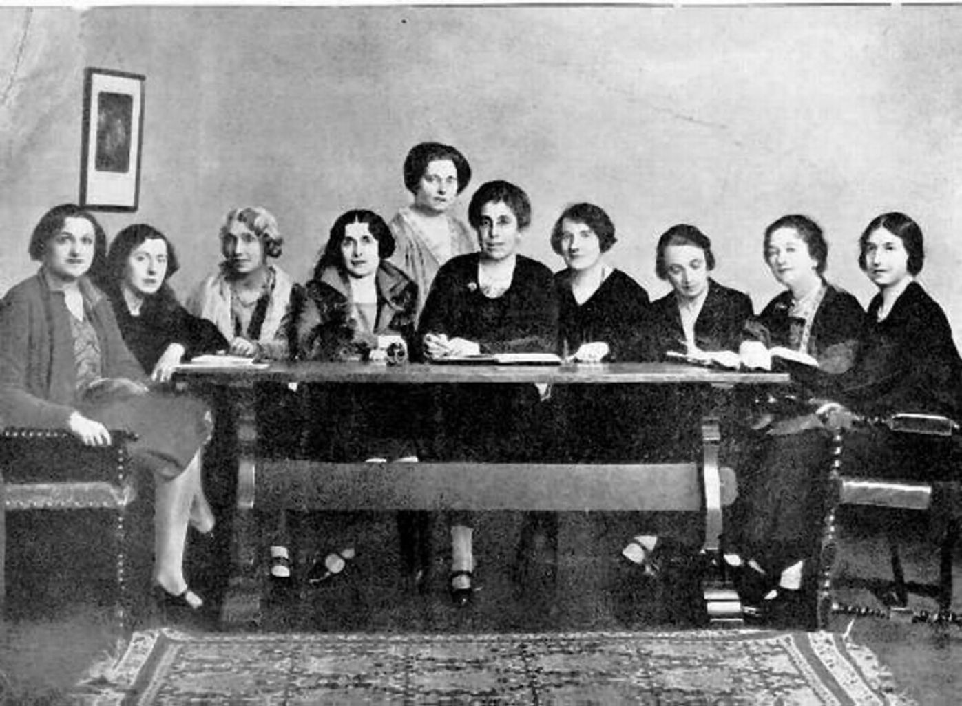 WIZO members from England during the first WIZO conference in Carlsbad. From right to left: 4) Romana Goodman, 5) Lady Samuel, 8) Eder.